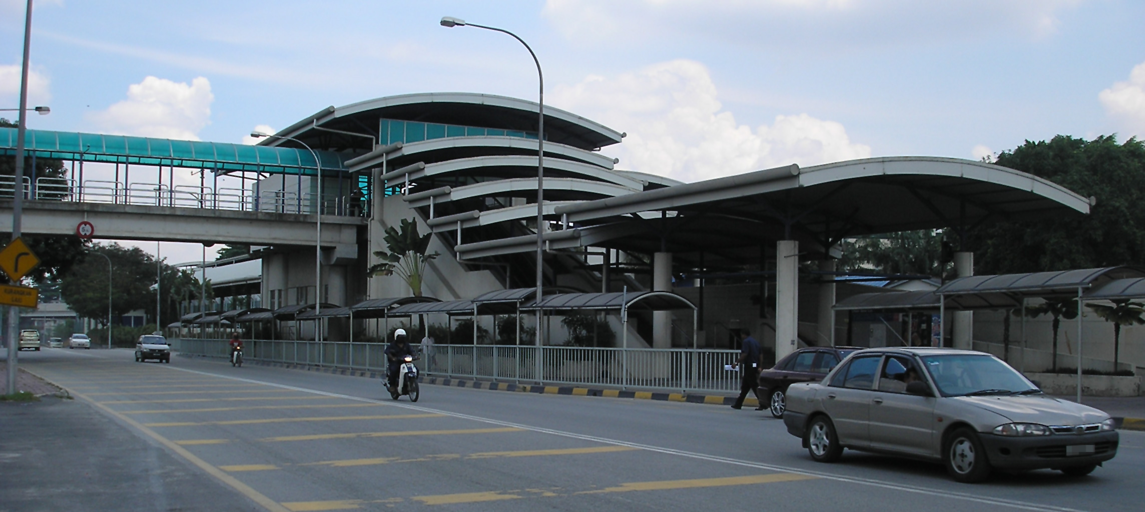 An exterior view of the Chan Sow Lin LRT station (Sri Petaling Line/Ampang Line), Kuala Lumpur, Malaysia.